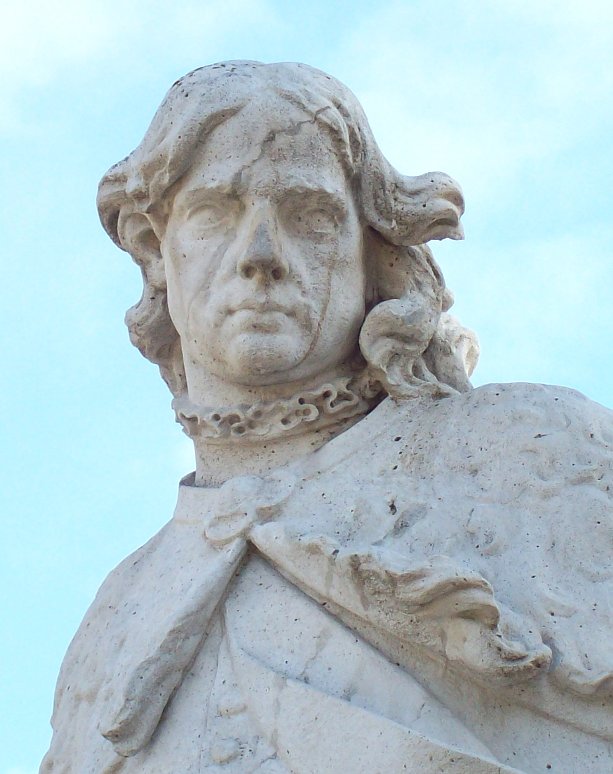 Statue of Alfonso VIII of Castile (detail)